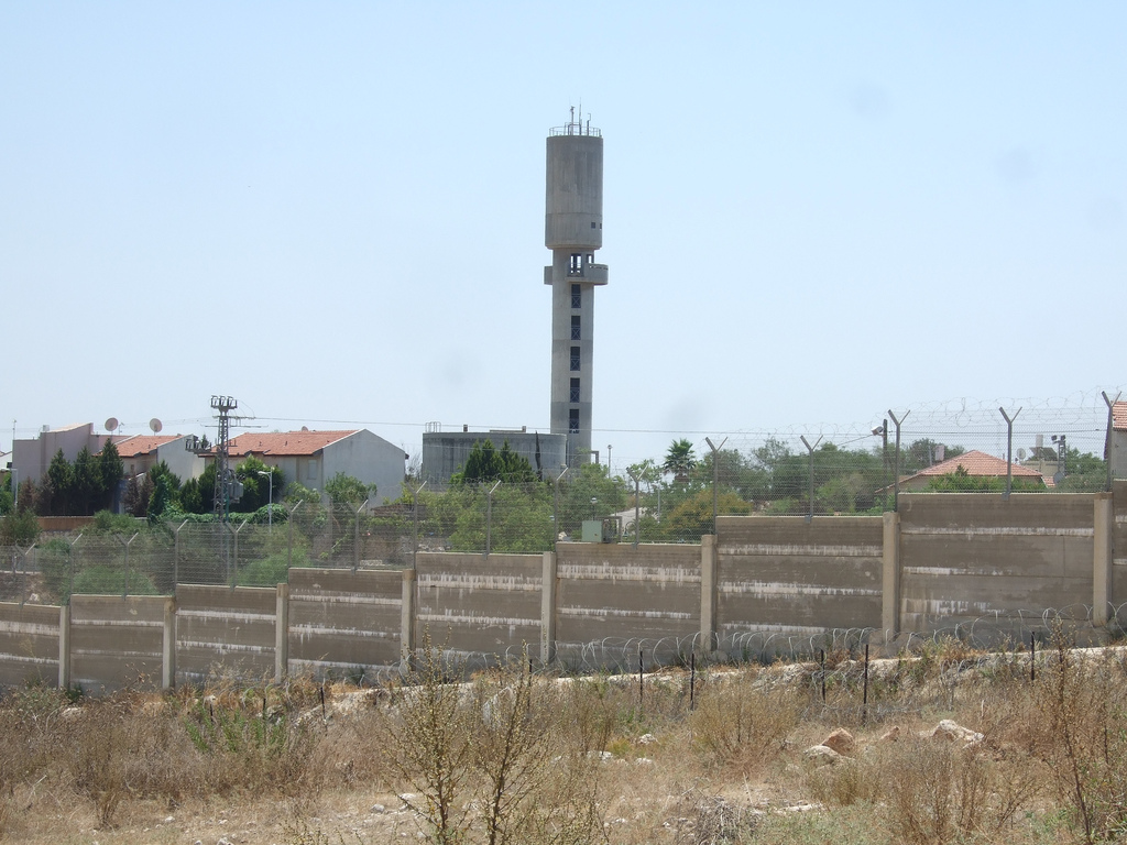 Matan, Israel (seen from the Palestinian village Habla in the West Bank).